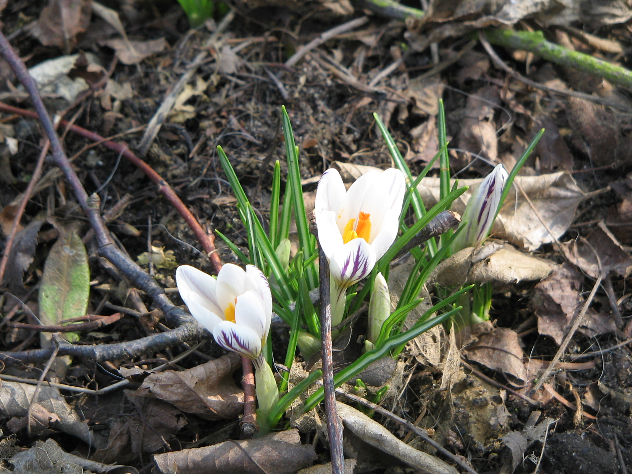 Crocus versicolor 'Picturatus'